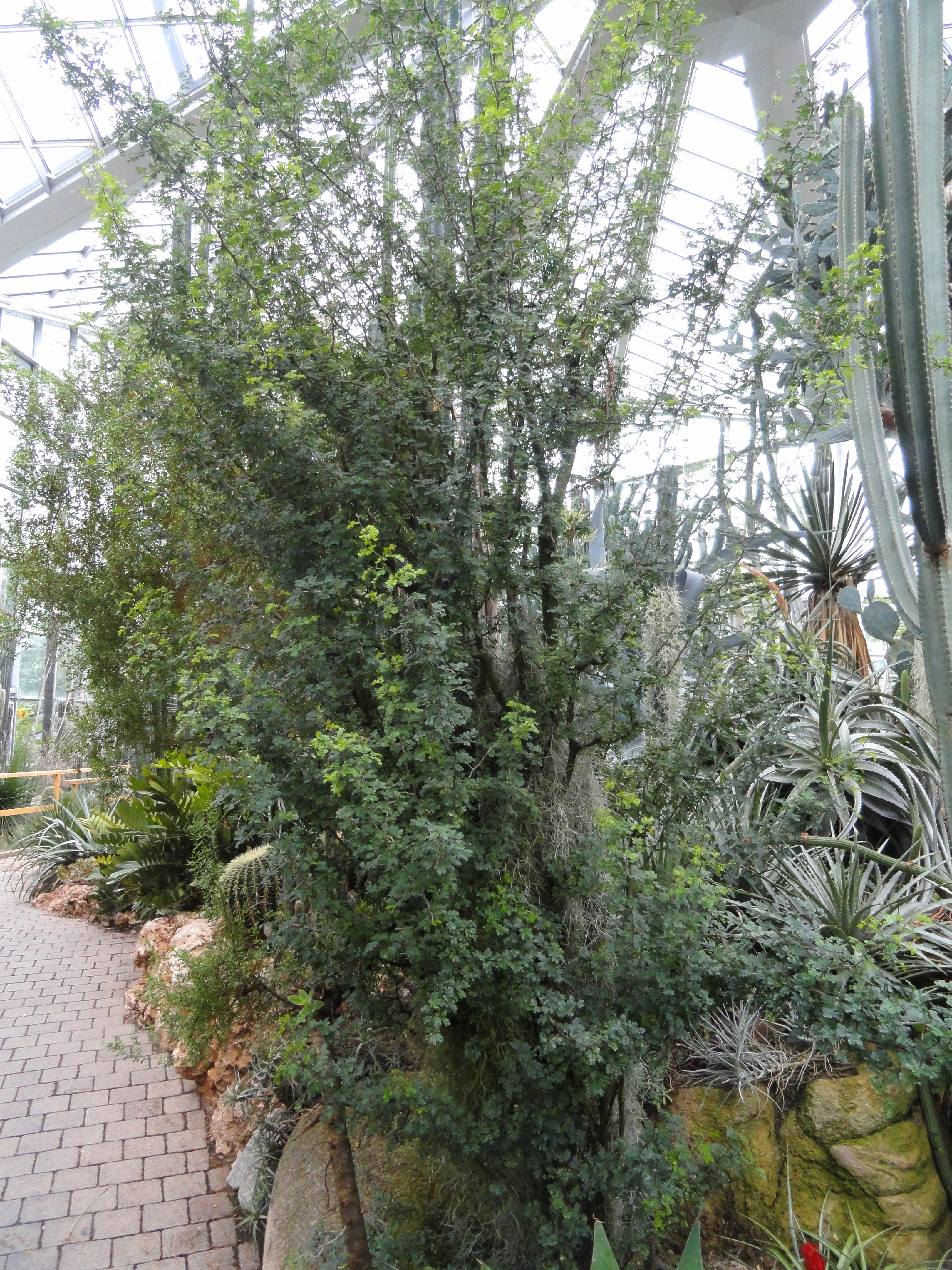 Botanical specimen in the Palmengarten, Frankfurt am Main, Germany.